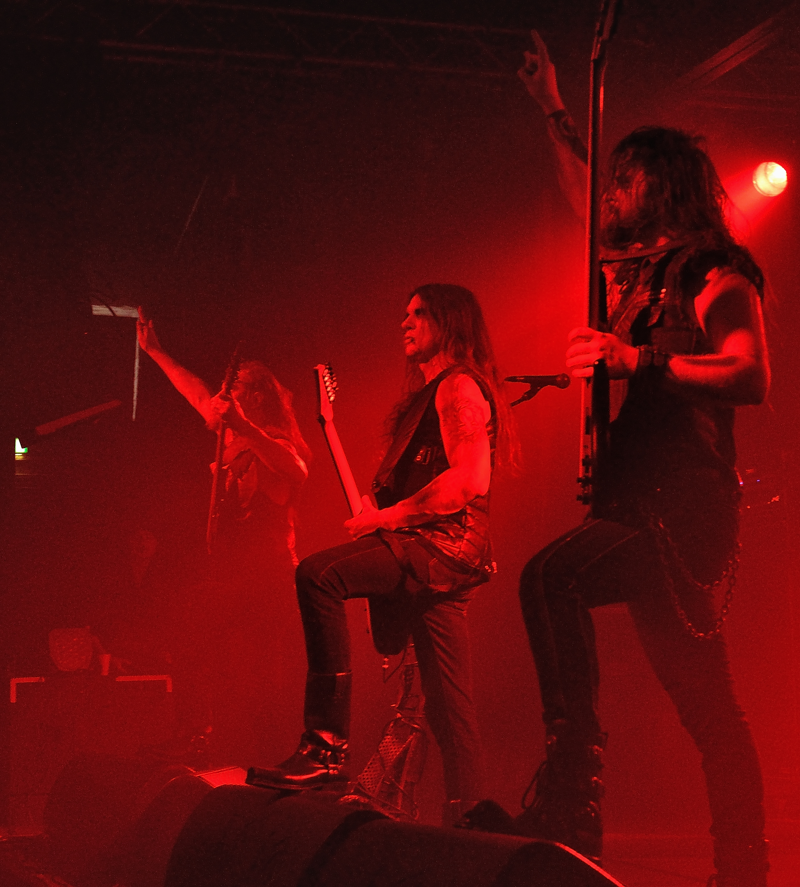 Hate at Hatefest 2015 in Berlin.